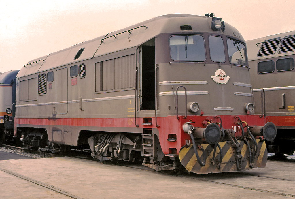 FS D342 4017 (Ansaldo - 1962) withdrawn inside the Depot of Siena. May 8th, 1988